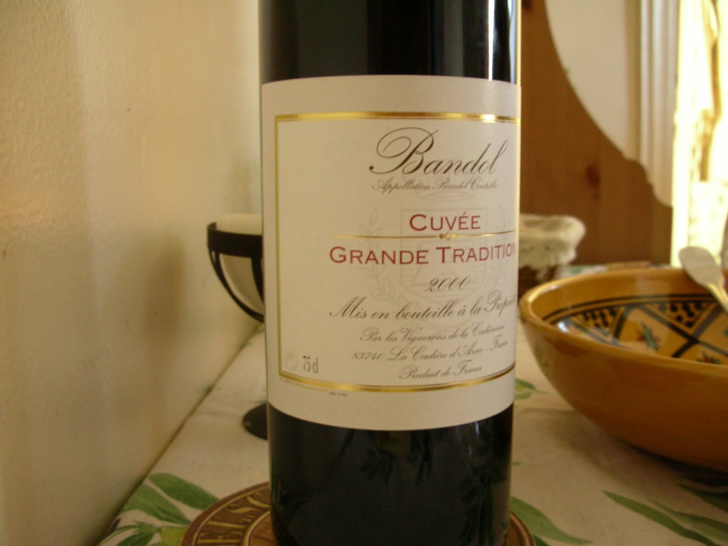 A bottle of the French wine Bandols from Provence made predominantly from Mourvedre.